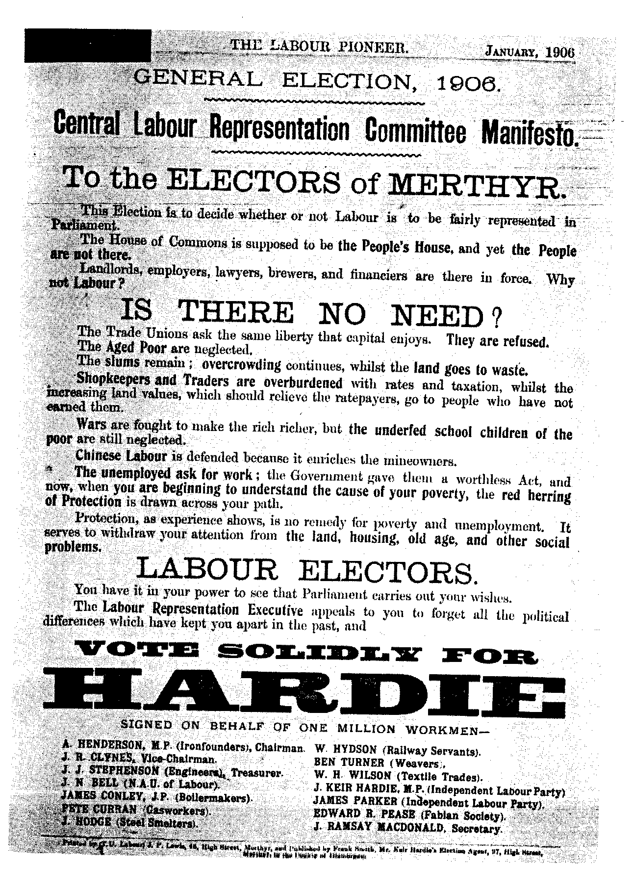 British Labour Party's leader Keir Hardie's electoral manifesto by from the 1906 General Election